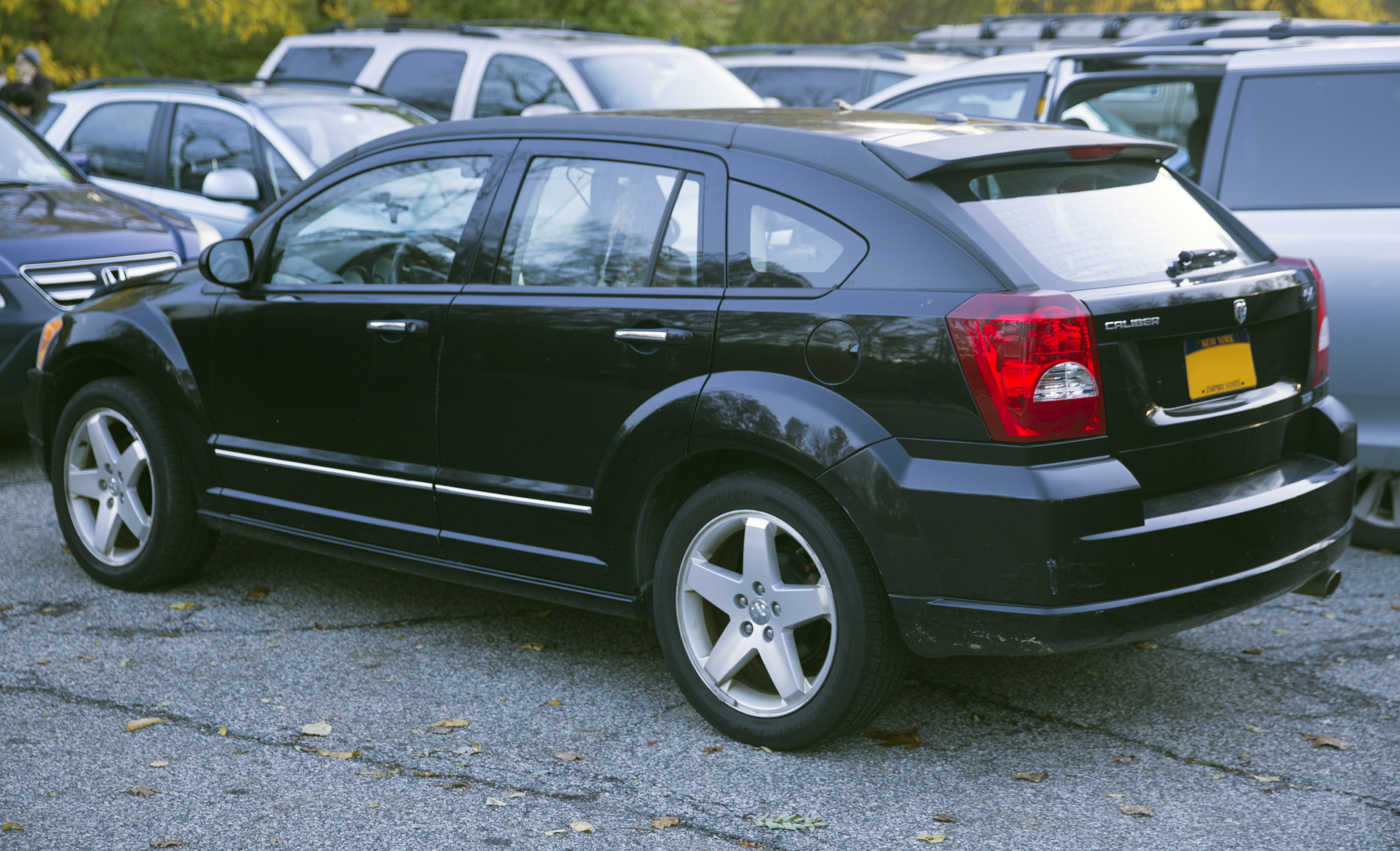 A 2007 Dodge Caliber R/T AWD in the Rockefeller State Park Preserve. 2.4-liter four; assembled in Belvidere, IL.